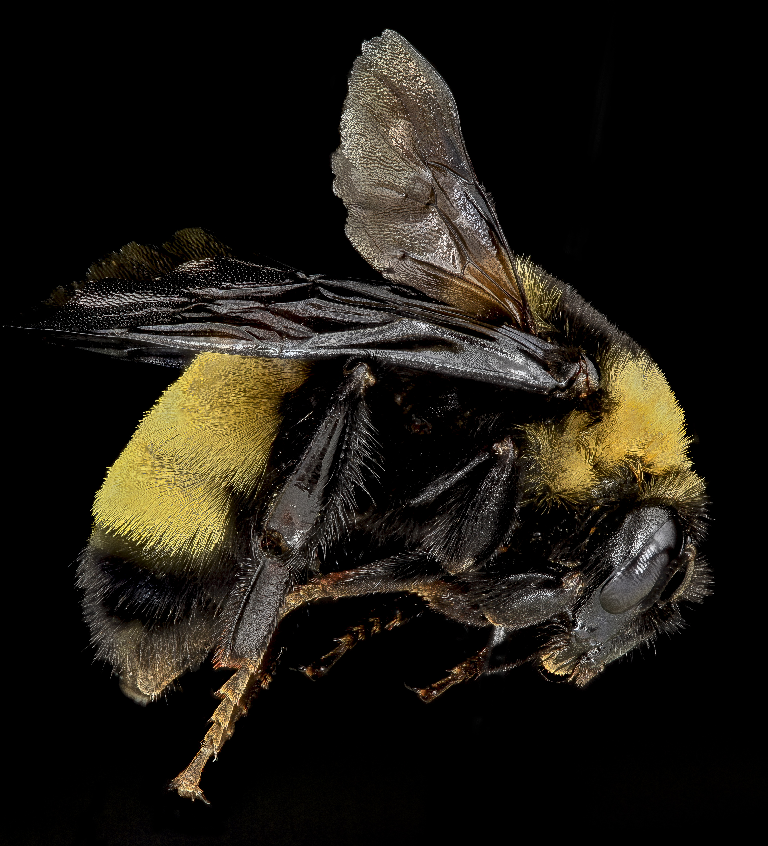 Bombus auricomus, A species regularly found in urban areas, but uncommon elsewhere, this one is from Baltimore along powerlines near the collectively owned Armistead Gardens